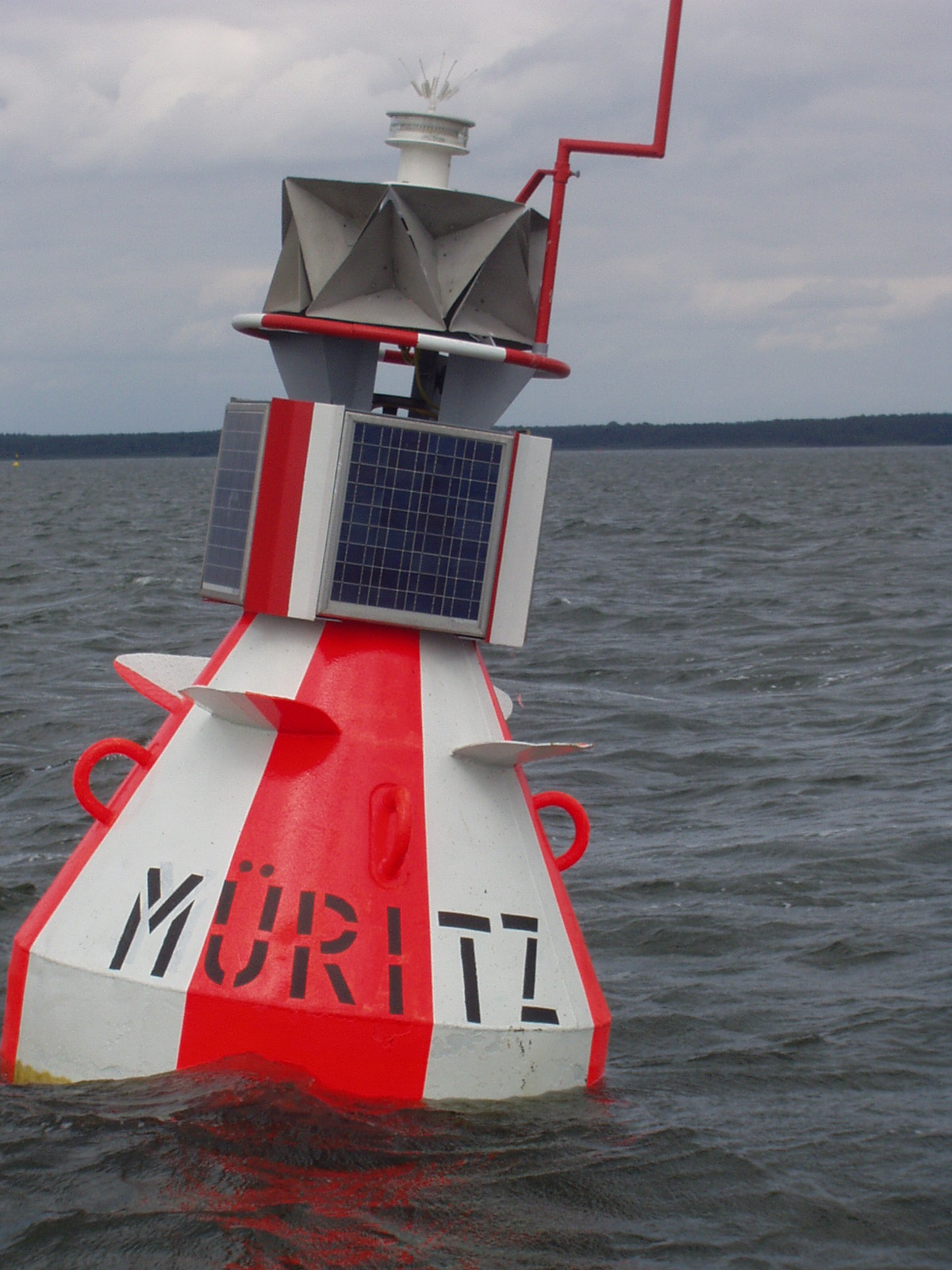 Müritz, Germany. Bouy marking the centre of the lake.